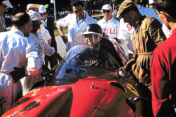 Mike Hawthorn is the driver in the Ferrari 412 MI at 500 Miglia di Monza on 29 June 1958. At far left seems to be Romolo Tavoni (glasses). Mechanic Adelmo Marchetto may be on the right, in the brownish mechanics overall (this according to the blog post: Three Brave Men).